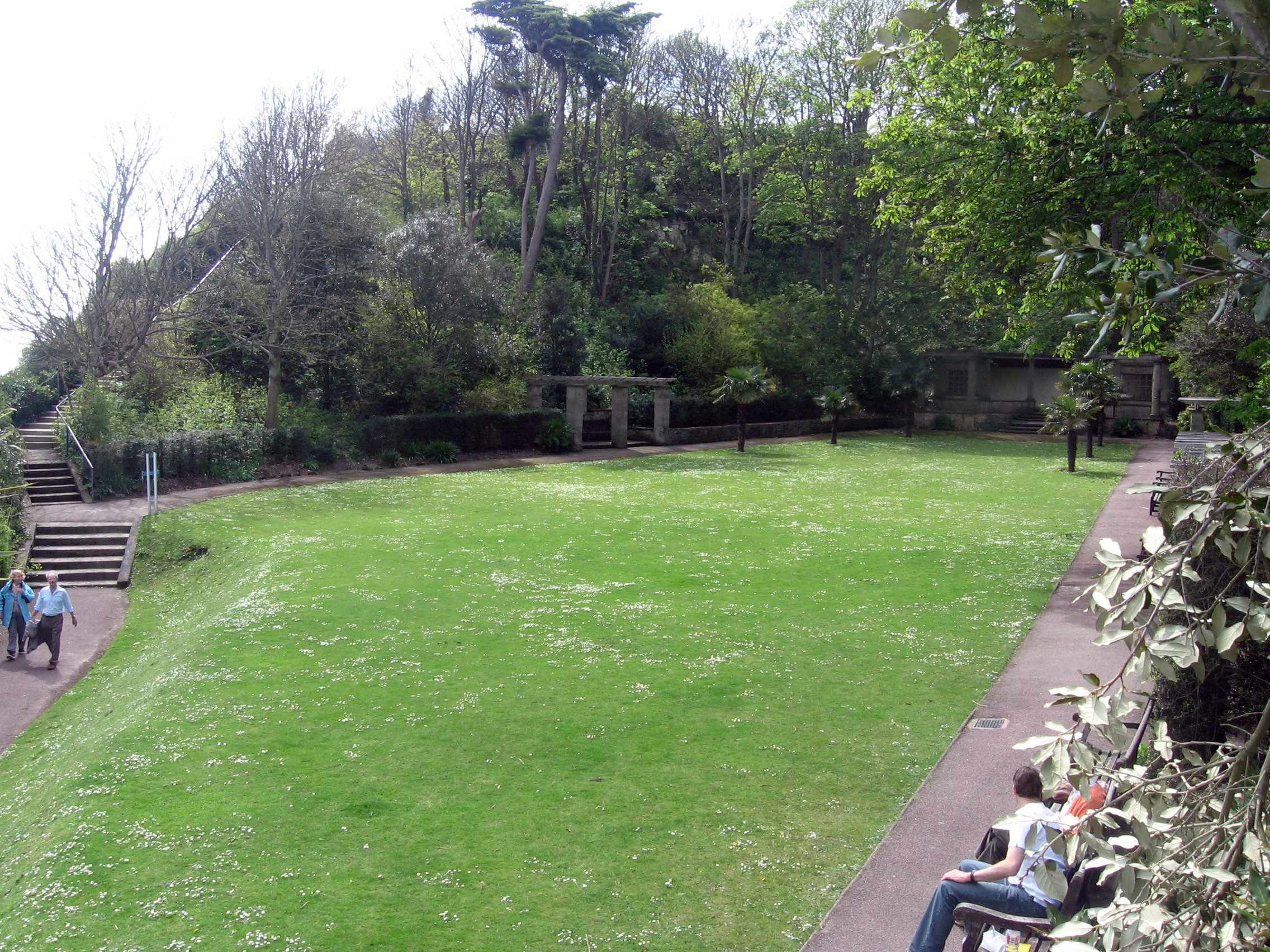 Italian Gardens, Holywell, Eastbourne